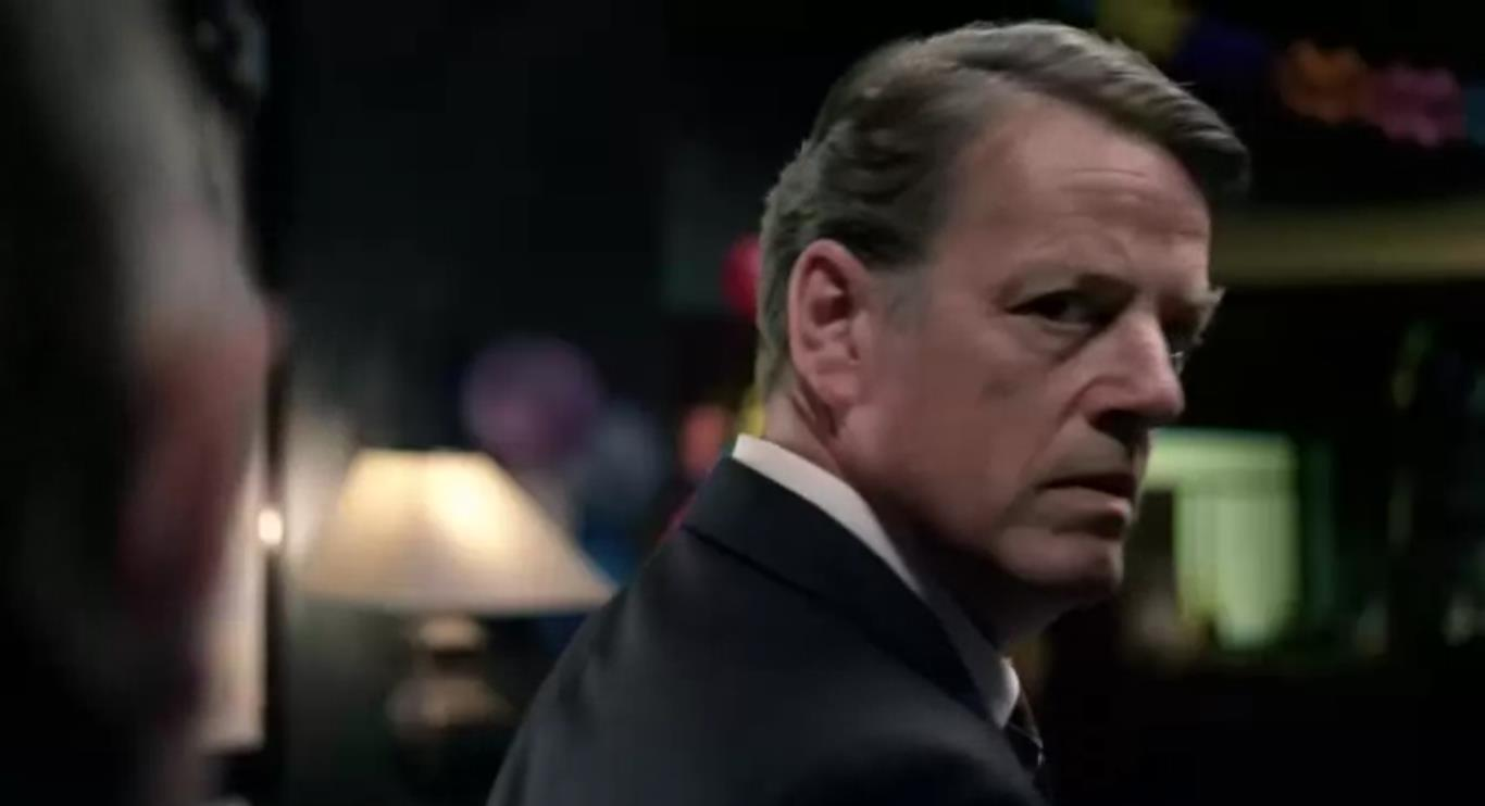 Dutch actor Kees Prins in VARA TV series Overspel (2013)